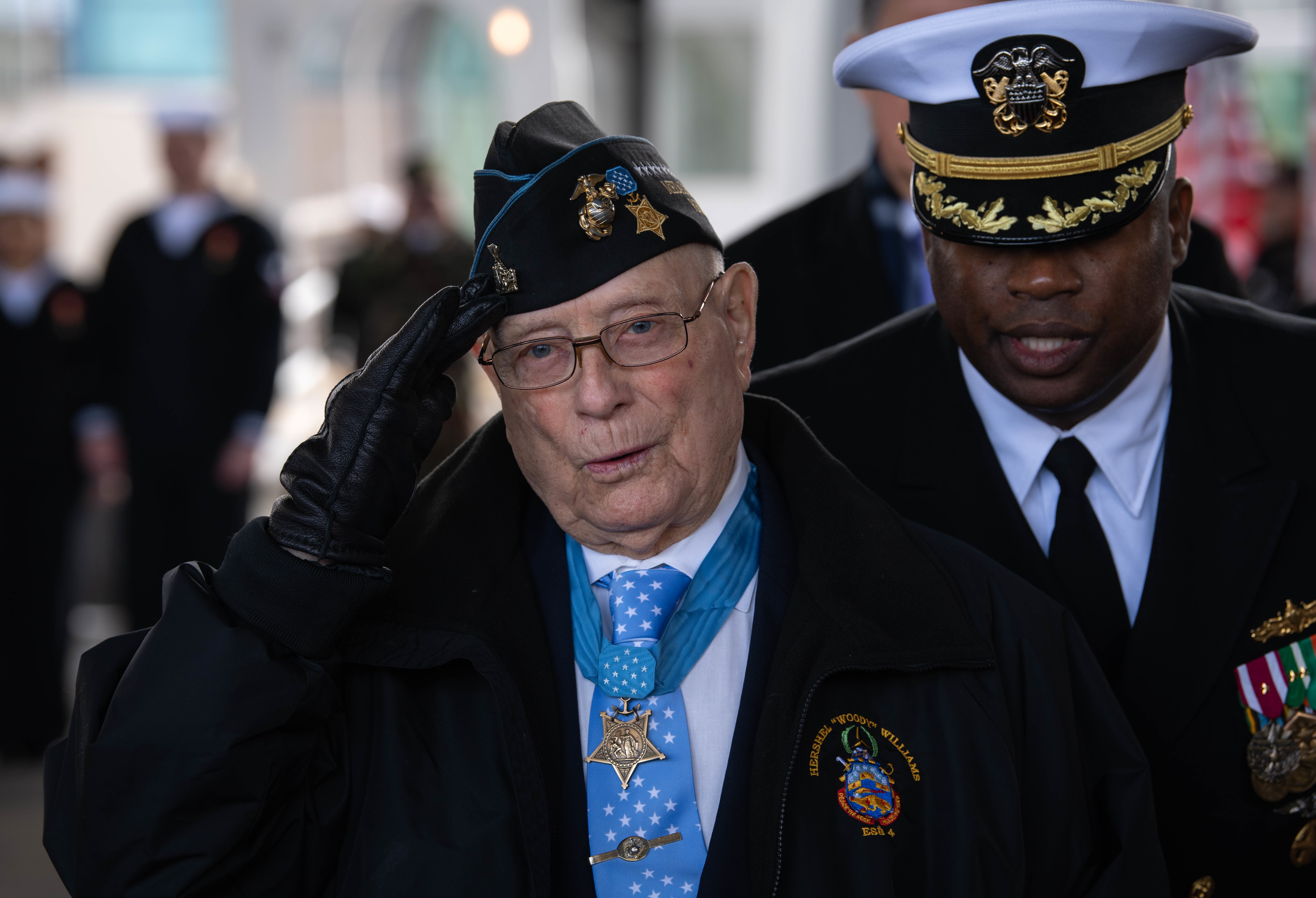 Photograph of Hershel W. Williams, Retired Chief Warrant Officer Four and Medal of Honor recipient, at the commissioning of the Navy warship USS Hershel "Woody" Williams More information